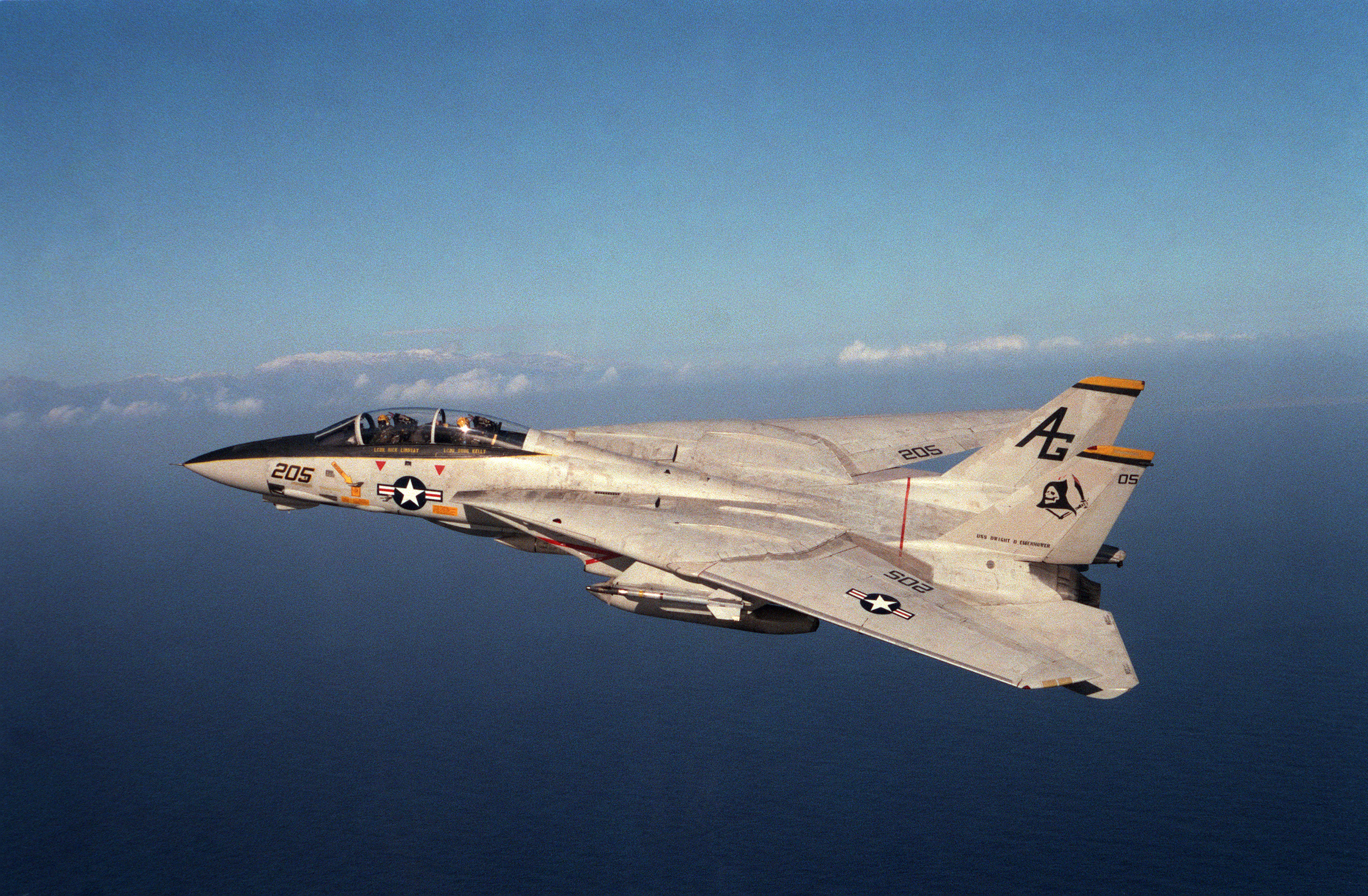 A U.S. Navy Grumman F-14A Tomcat from Fighter Squadron 142 (VF-142) Ghost Riders in flight. VF-142 was assigned to Carrier Air Wing 7 (CVW-7) aboard the aircraft carrier USS Dwight D. Eisenhower (CVN-69) for a deployment to the Mediterranean Sea from 10 October 1984 to 8 May 1985.